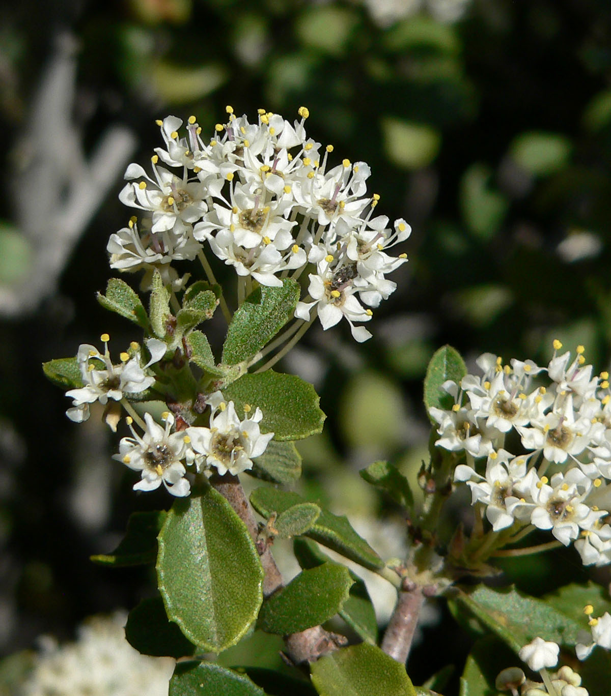 Ceanothus greggii in Lovell Canyon, Spring Mountains, southern Nevada